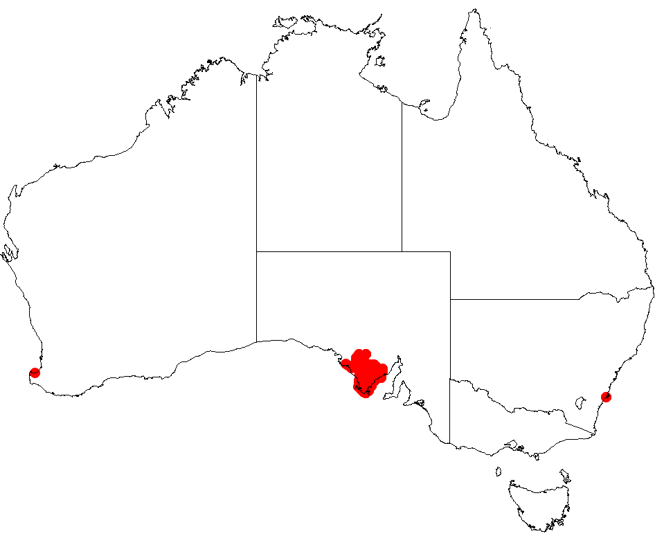 Hakea cycloptera Occurrence data downloaded from Australasian Virtual Herbarium on 22 November 2018 using